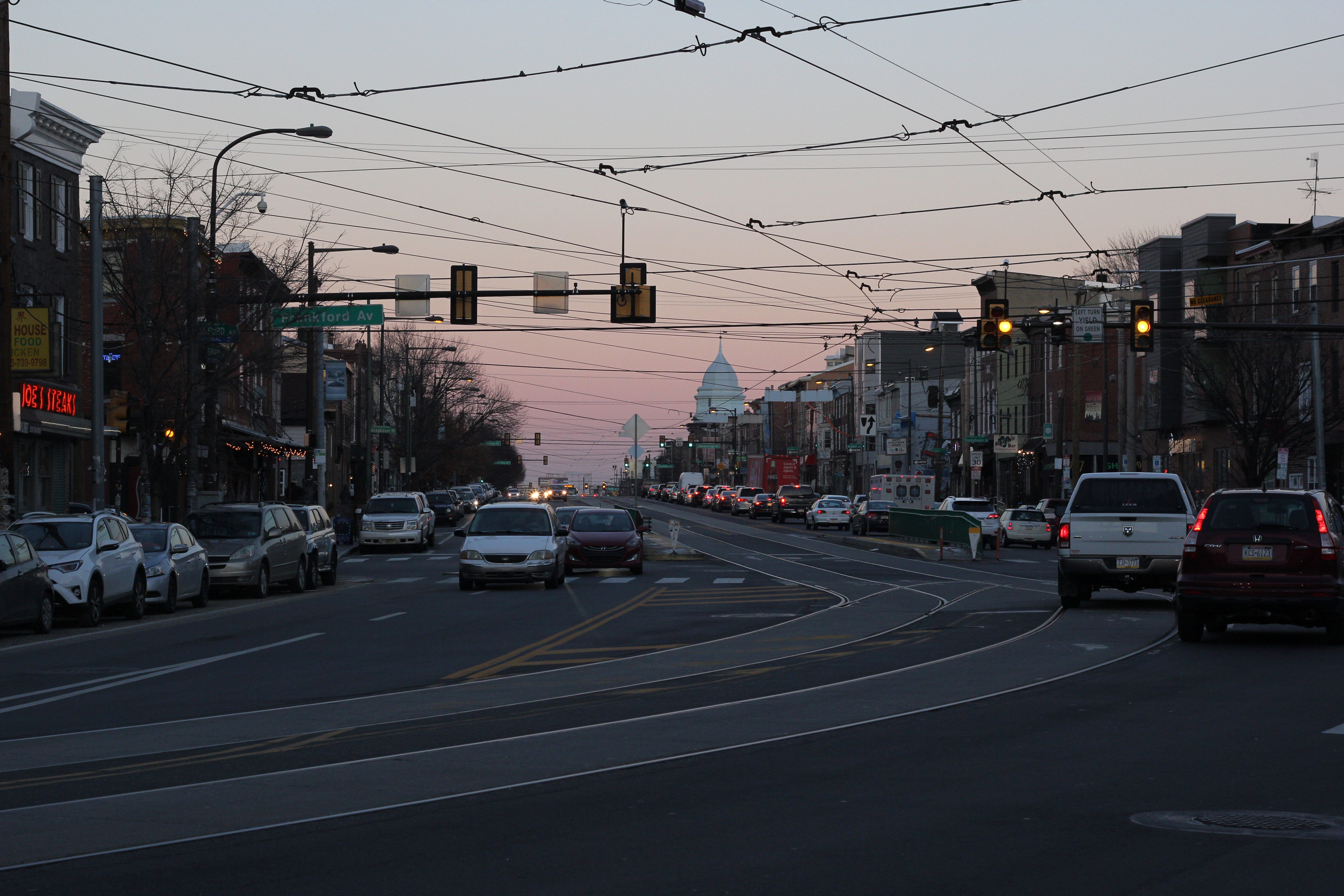 Dusk on Girard Ave